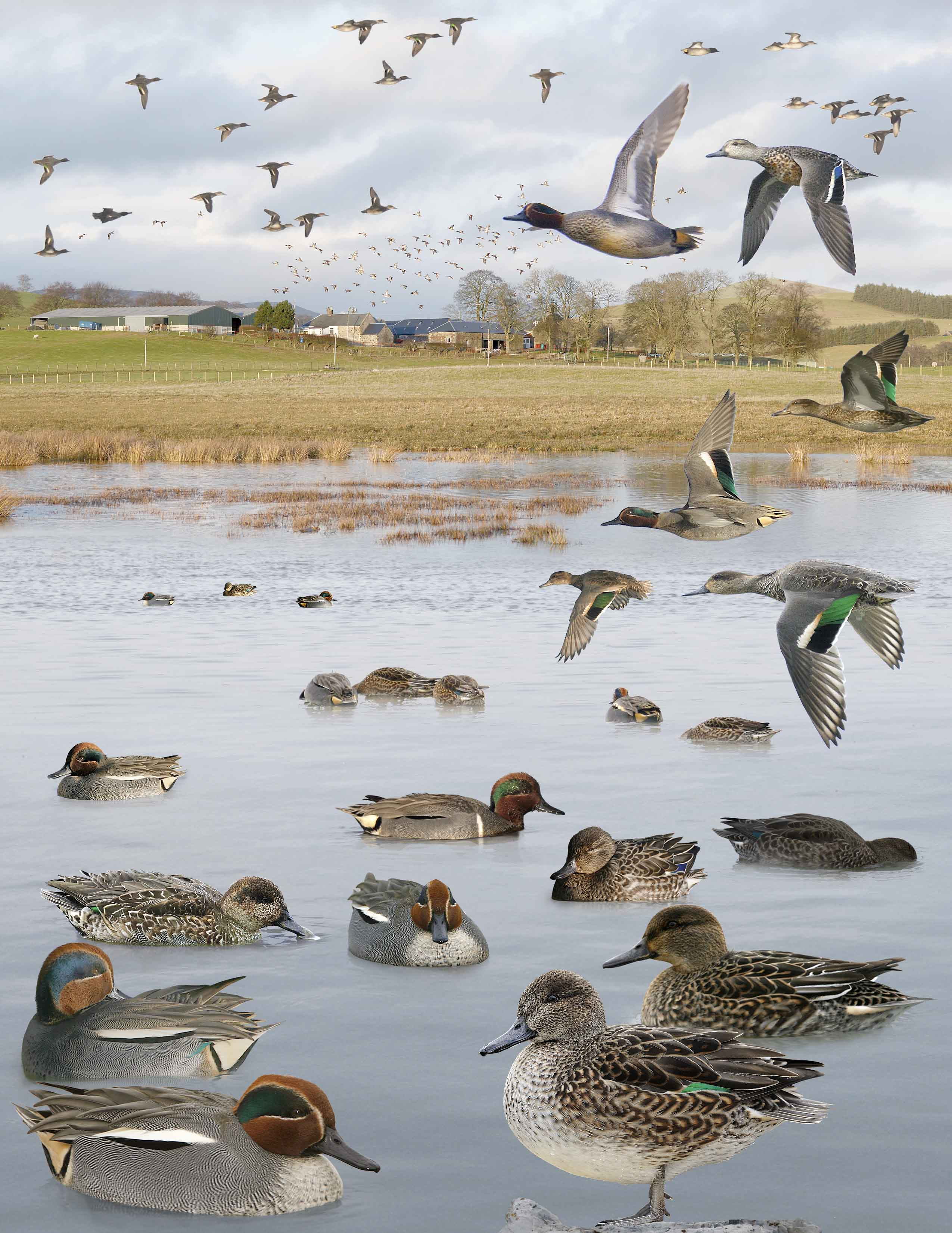 Common Teal from the Crossley ID Guide Britain and Ireland